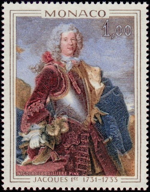 Stamp of Jacques I of Monaco